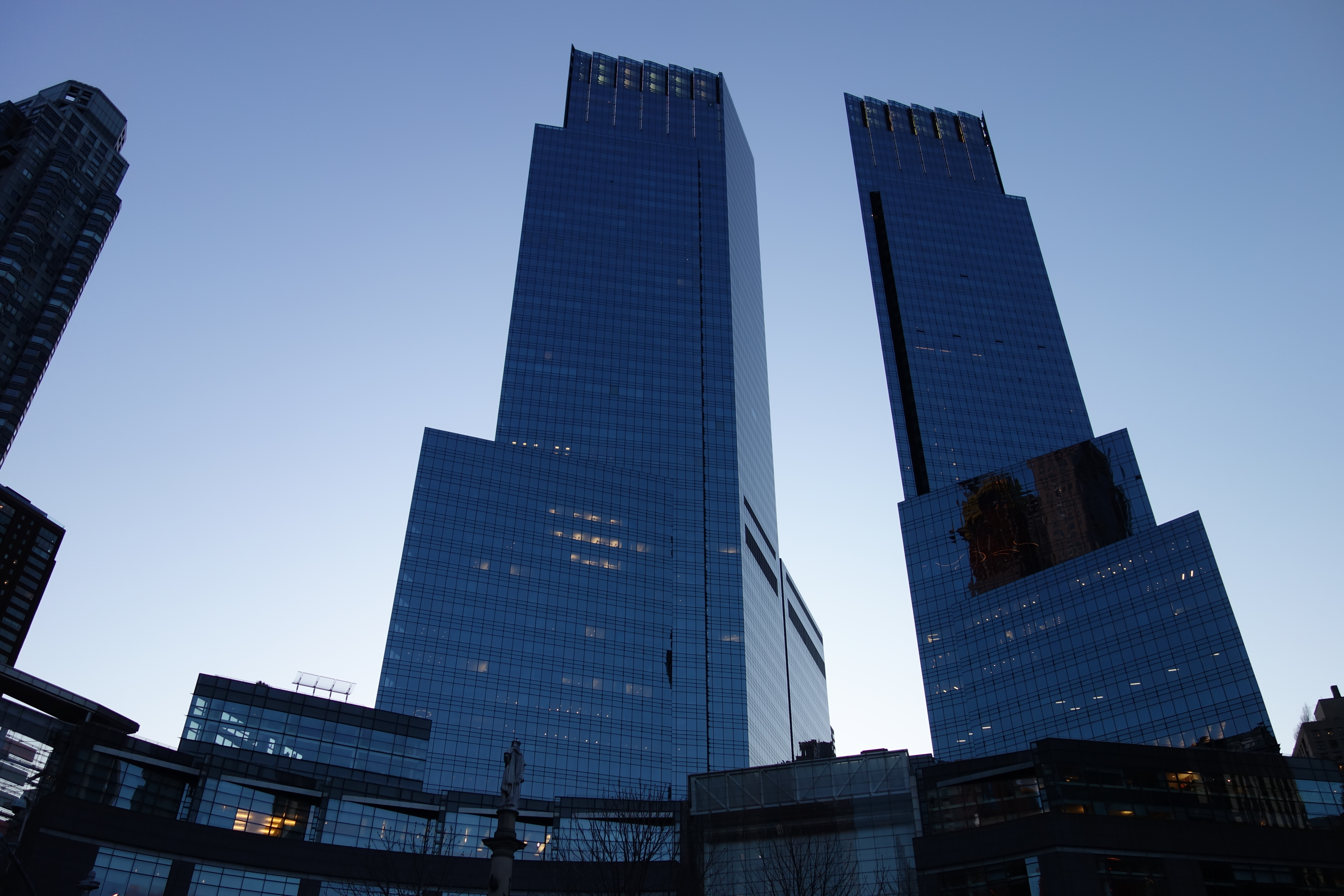 Looking west at the Time Warner Center in Columbus Circle, Midtown Manhattan.